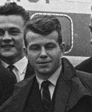 Carl Emil Christiansen in 1963